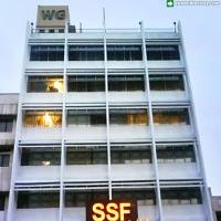 Front View of Bangunan Gurucharan